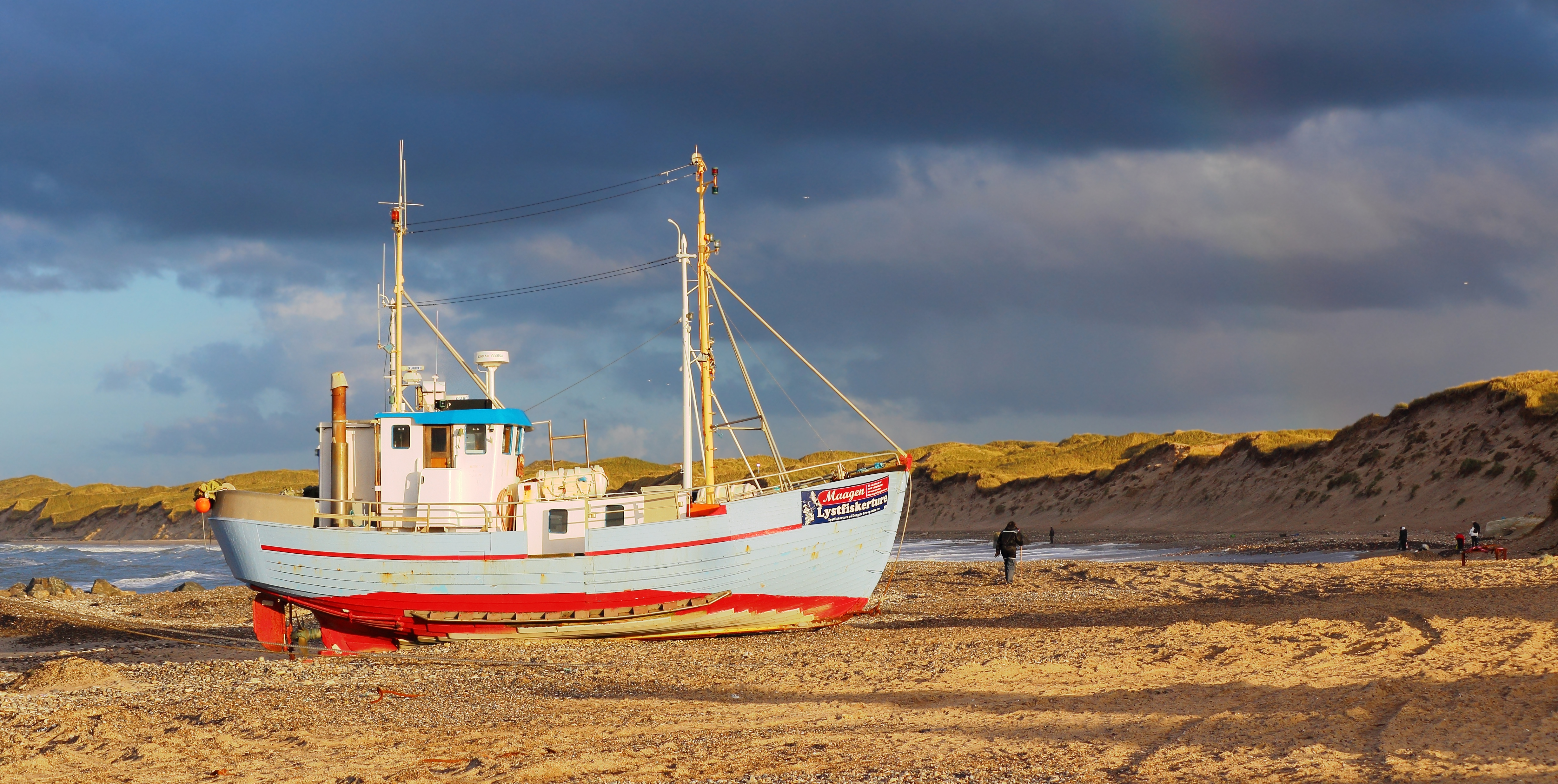 The leisure fishing boat Maagen on the beach of Nørre Vorupør, Denmark. Can you see the rainbow?